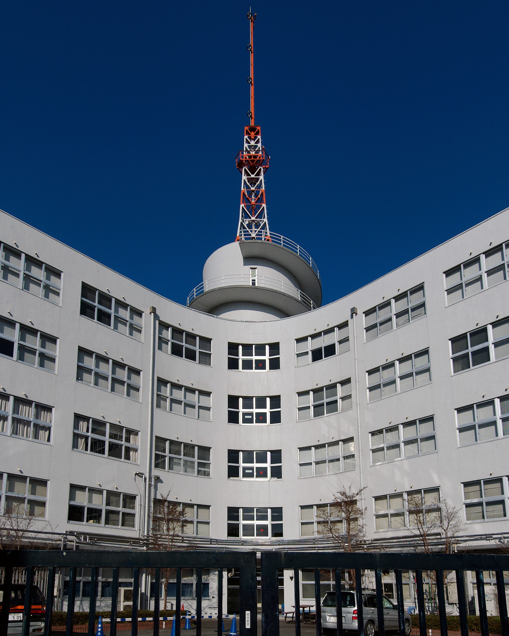 Building 2 of Tokai University Yoyogi Campus, at Tomigaya Shibuya Tokyo, design by Mamoru Yamada in 1958.